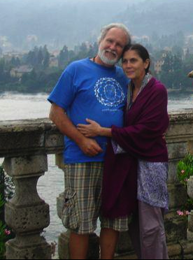 Portrait of William Hemmerle and Robin Lim[1], married over 25 years, parents of 8 children.